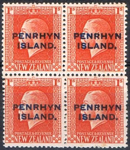 Circa 1917 stamps of New Zealand overprinted for use in Penrhyn.